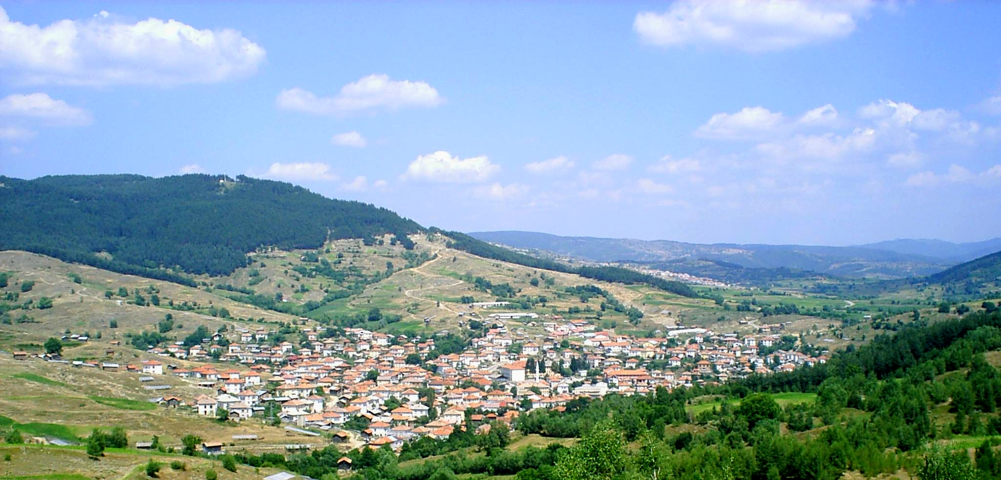 A view towards the village of Kochan (on the foreground) and the village of Vaklinovo (on the background).